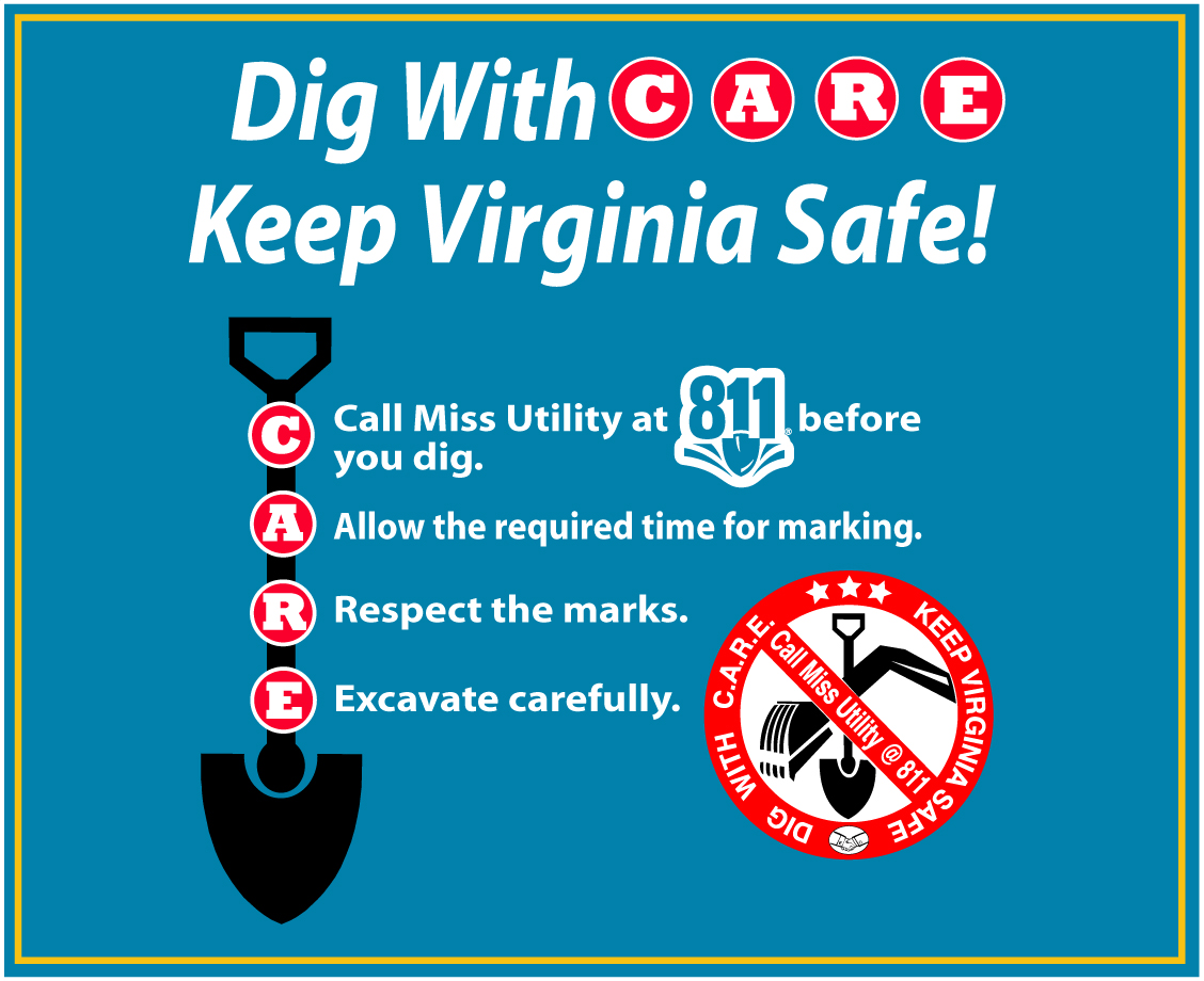 SCC C.A.R.E. program message